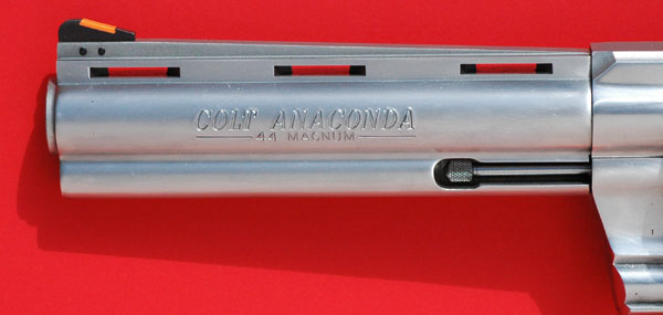 Photo © by Jeff Dean